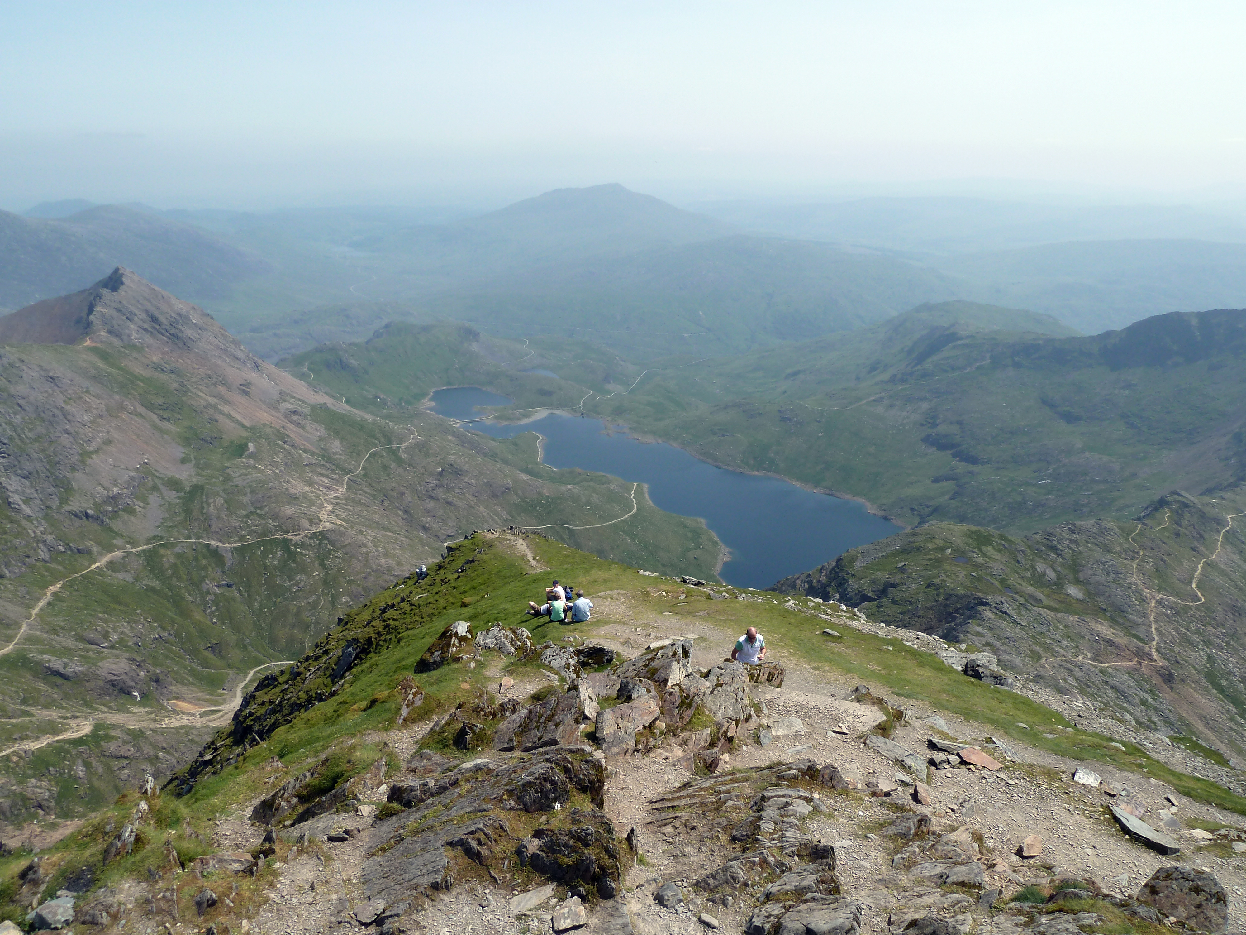 Llanberis Path, Snowdonia